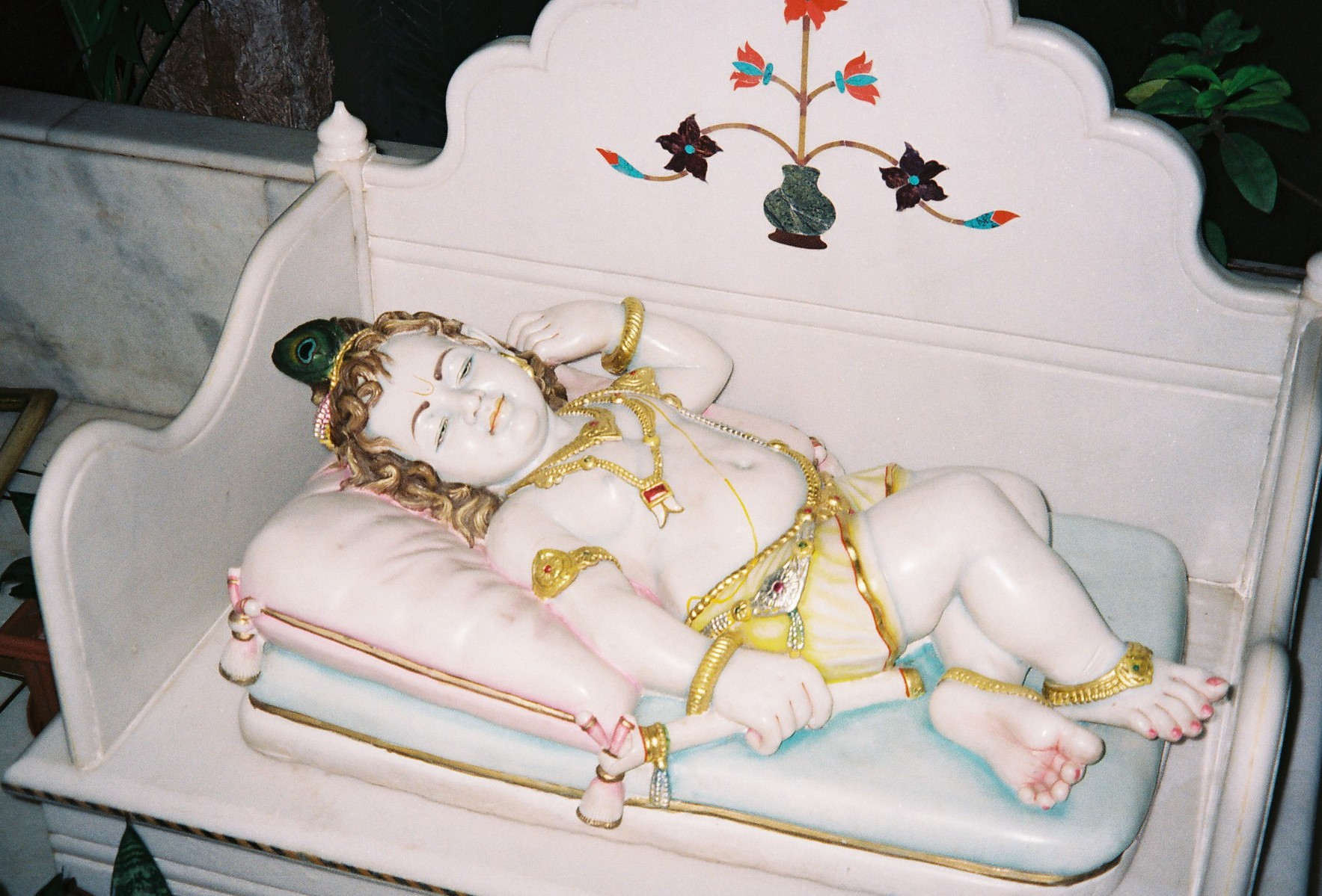 baby Krishna - Sleeping beauty